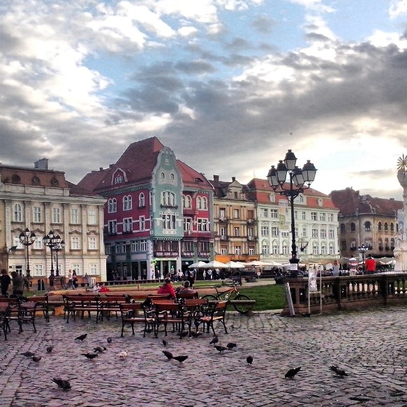 The old city of Timisoara, Romania